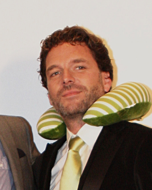 Actors Luke Jacobz, Axle Whitehead and Josh Quong Tart at the 2011 Logie Awards.